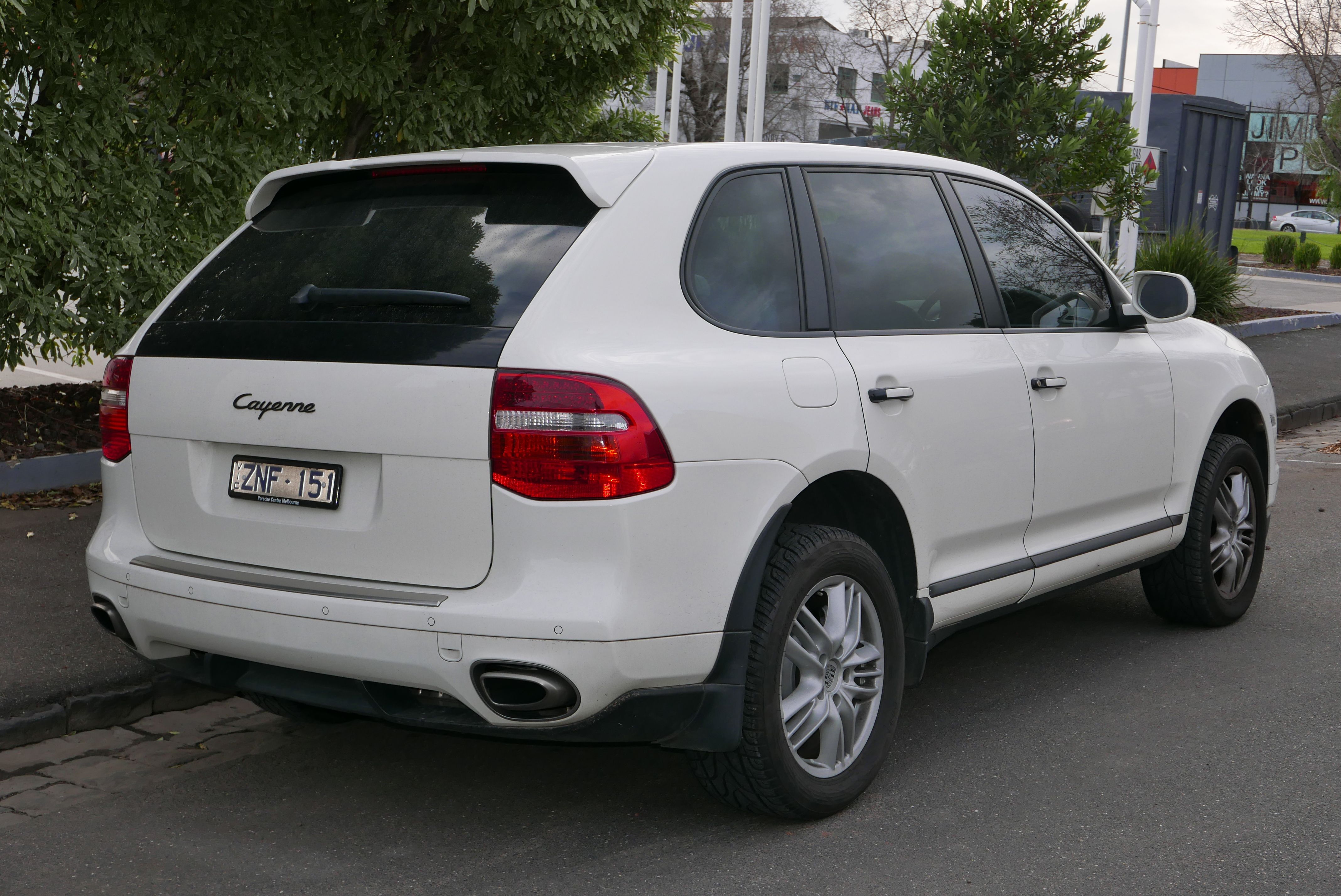 2009 Porsche Cayenne (9PA MY09) 3.6 wagon. Photographed in Collingwood, Victoria, Australia. Vehicle registration enquiry results Jurisdiction Victoria Registration ZNF151 Chassis code WP1ZZZ9PZ9LA07414 Engine code 63908625 Compliance date 2009-01 Year of manufacture 2009